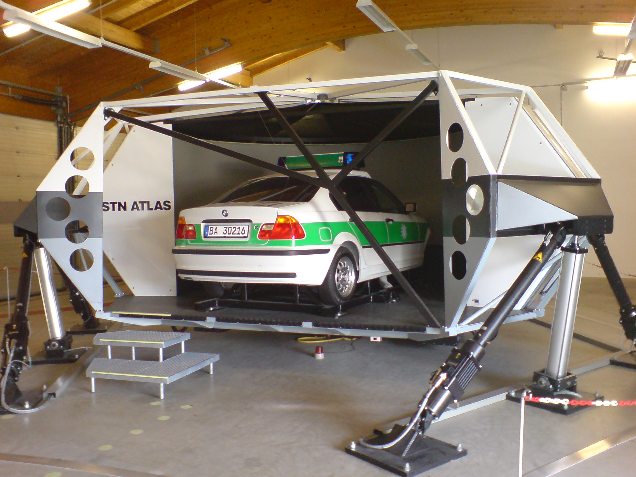 Driving simulator for the training of bavarian policemen